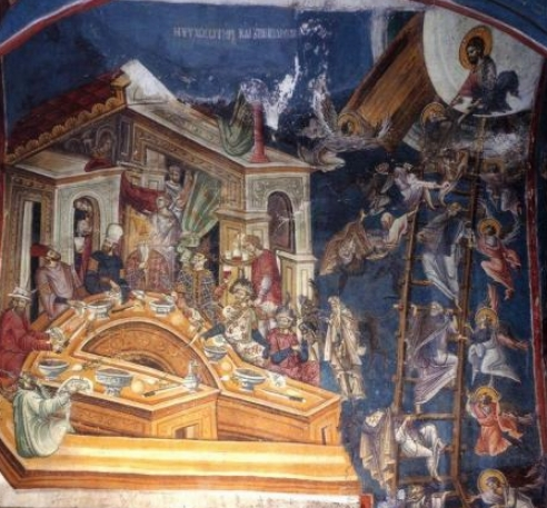 Jacob's Ladder and Luxurious Feast: wall painting from Exonarthex at Vatopedi